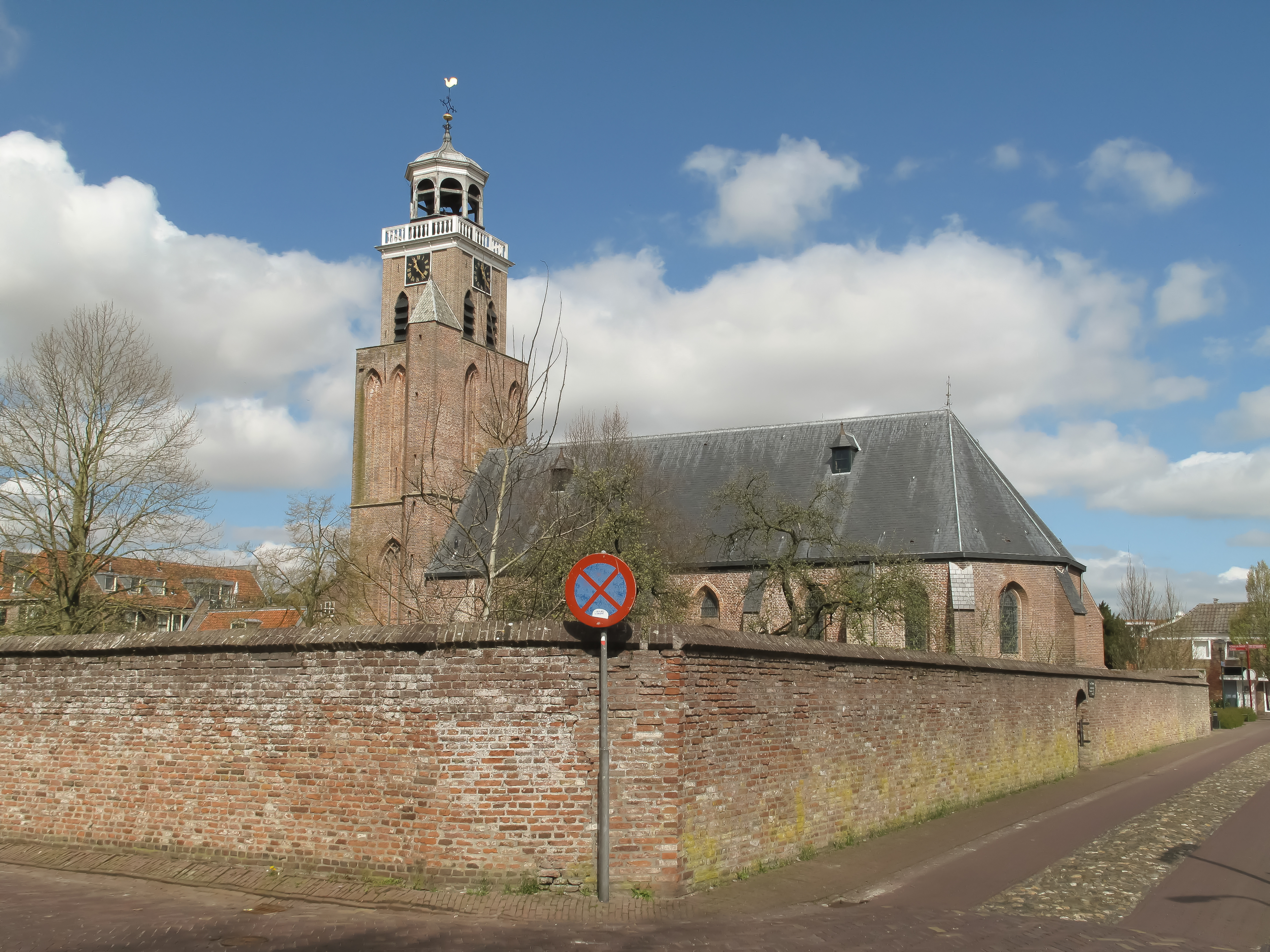 Vollenhove, church: de Kleine of Lieve Vrouwkerk